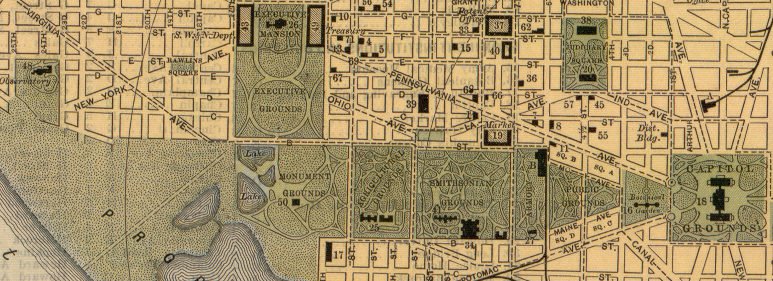 Portion of "Map of Washington, D.C.", from the Library of Congress